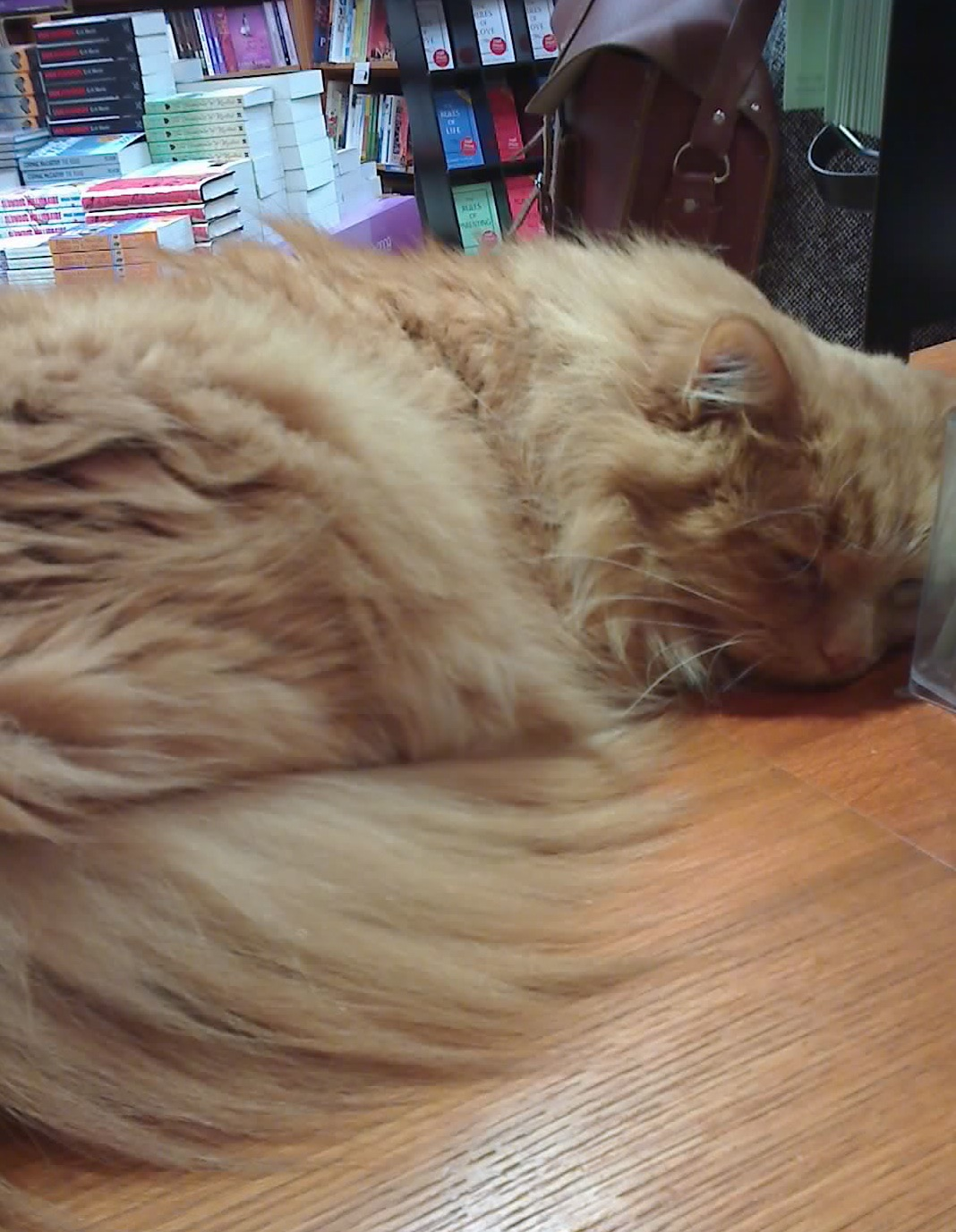 Hamish McHamish in Waterstone's bookshop, St Andrews.